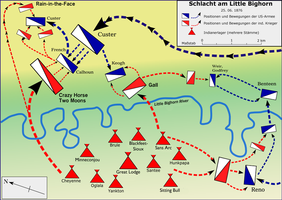 Translation into German of the English version by Piotr Tysarczyk.